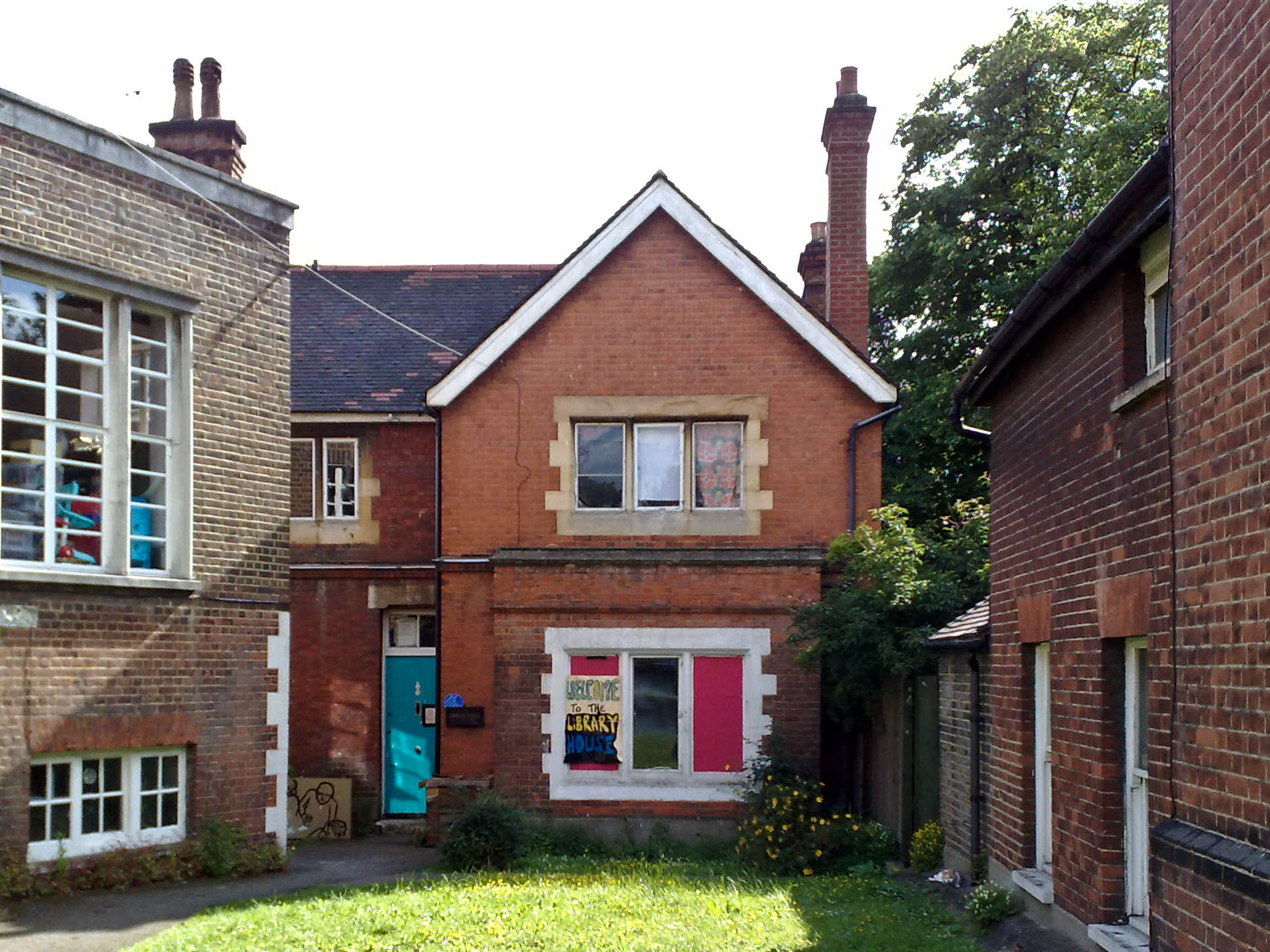 Squatted "autononous space" near Minet Library between Brixton and Camberwell.